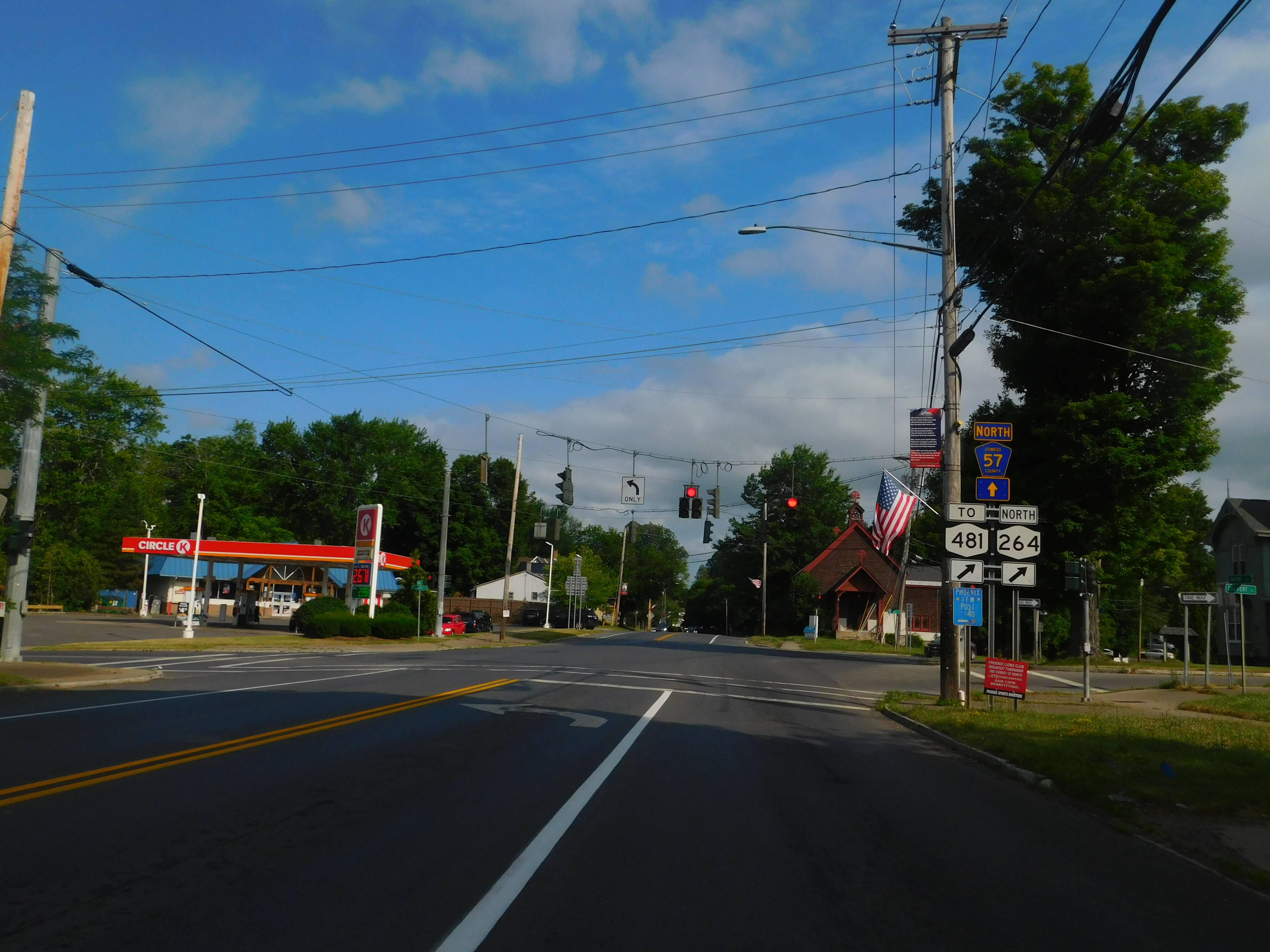 New York State Route 57 northbound in Phoenix, New York.